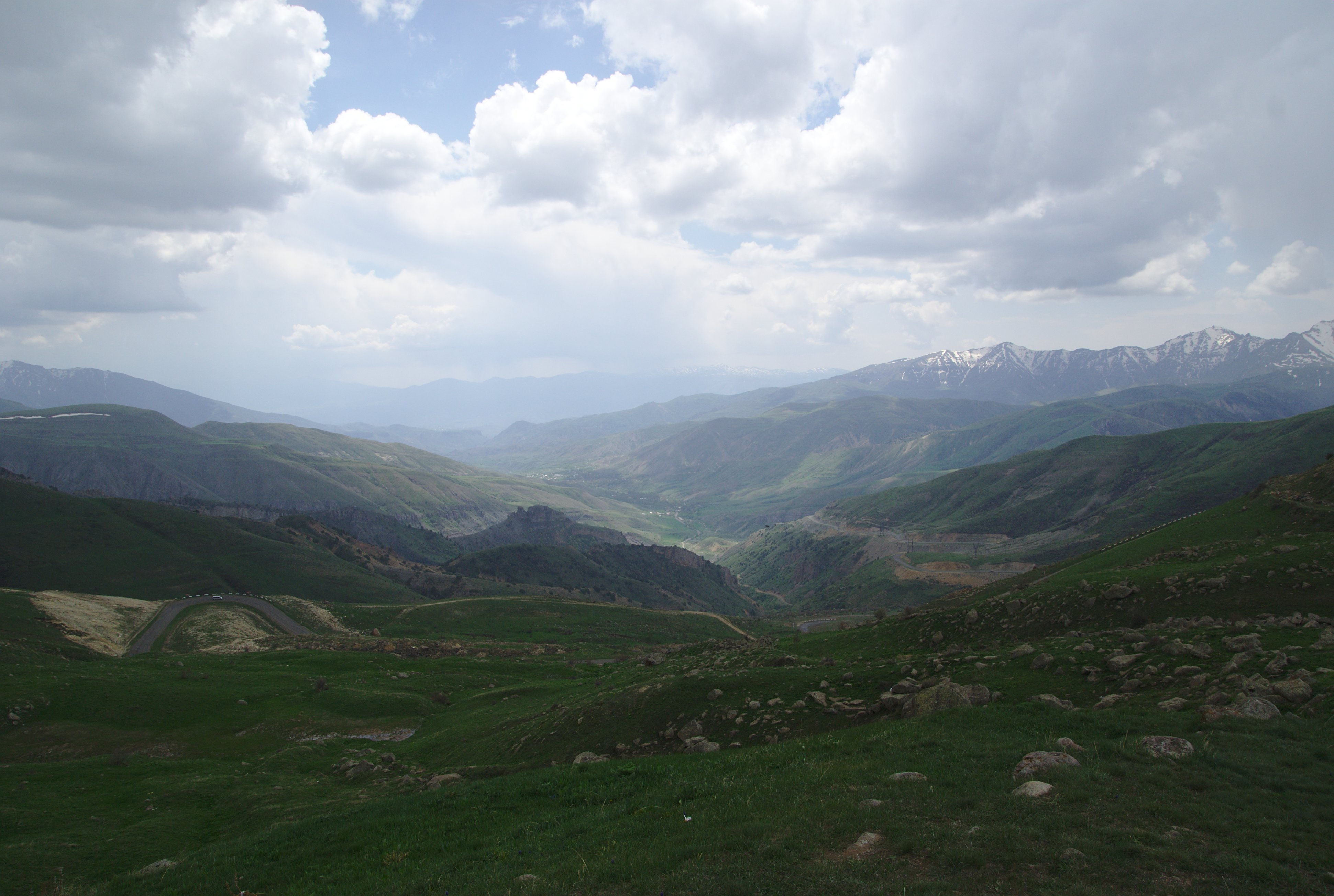 Vardenyats (Selim) mountain pass, Vayots Dzor